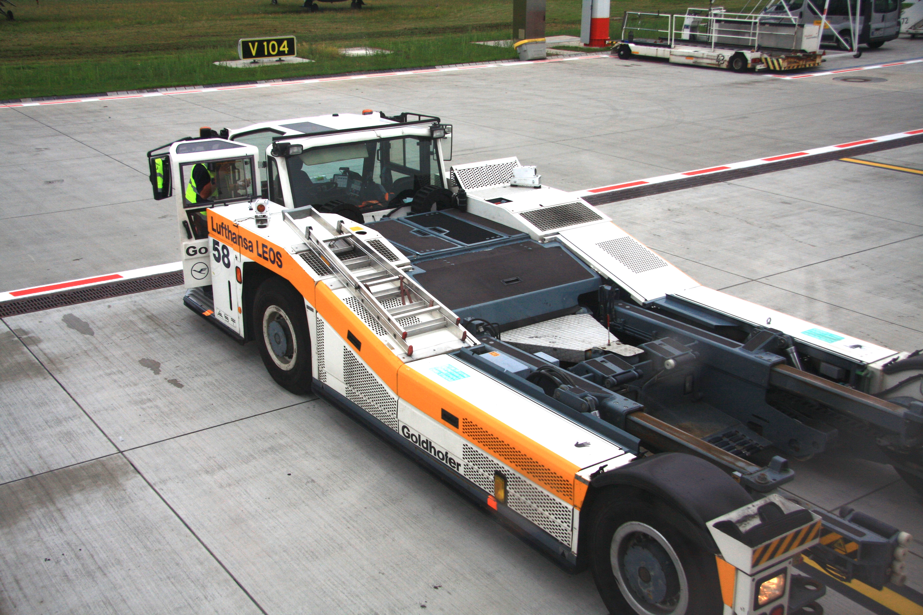 A Goldhofer Pushback tractor at the Düsseldorf International Airport